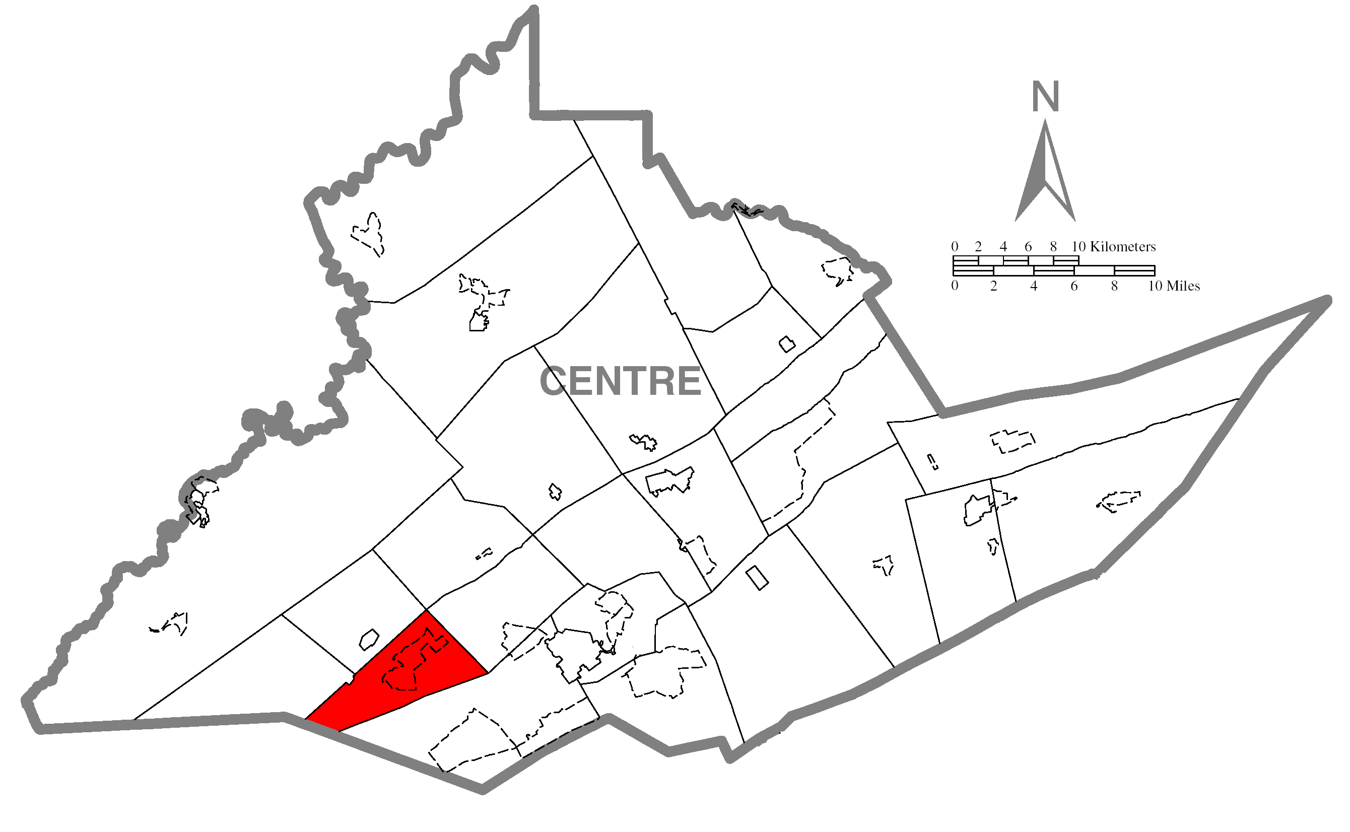 A map of Centre County showing Halfmoon Township, Pennsylvania (alternate) highlighted on the map.